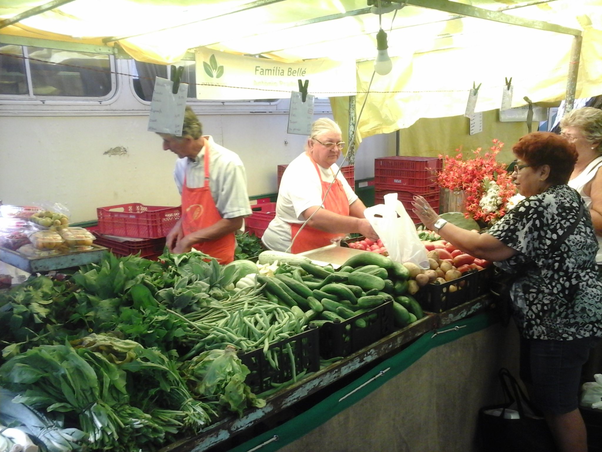 Vegetables at organic fair of Redenção, city of Porto Alegre, southern Brazil. Year 2017.